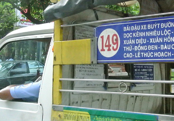 songthaew style bus in Ho Chi Minh city Vietnam.